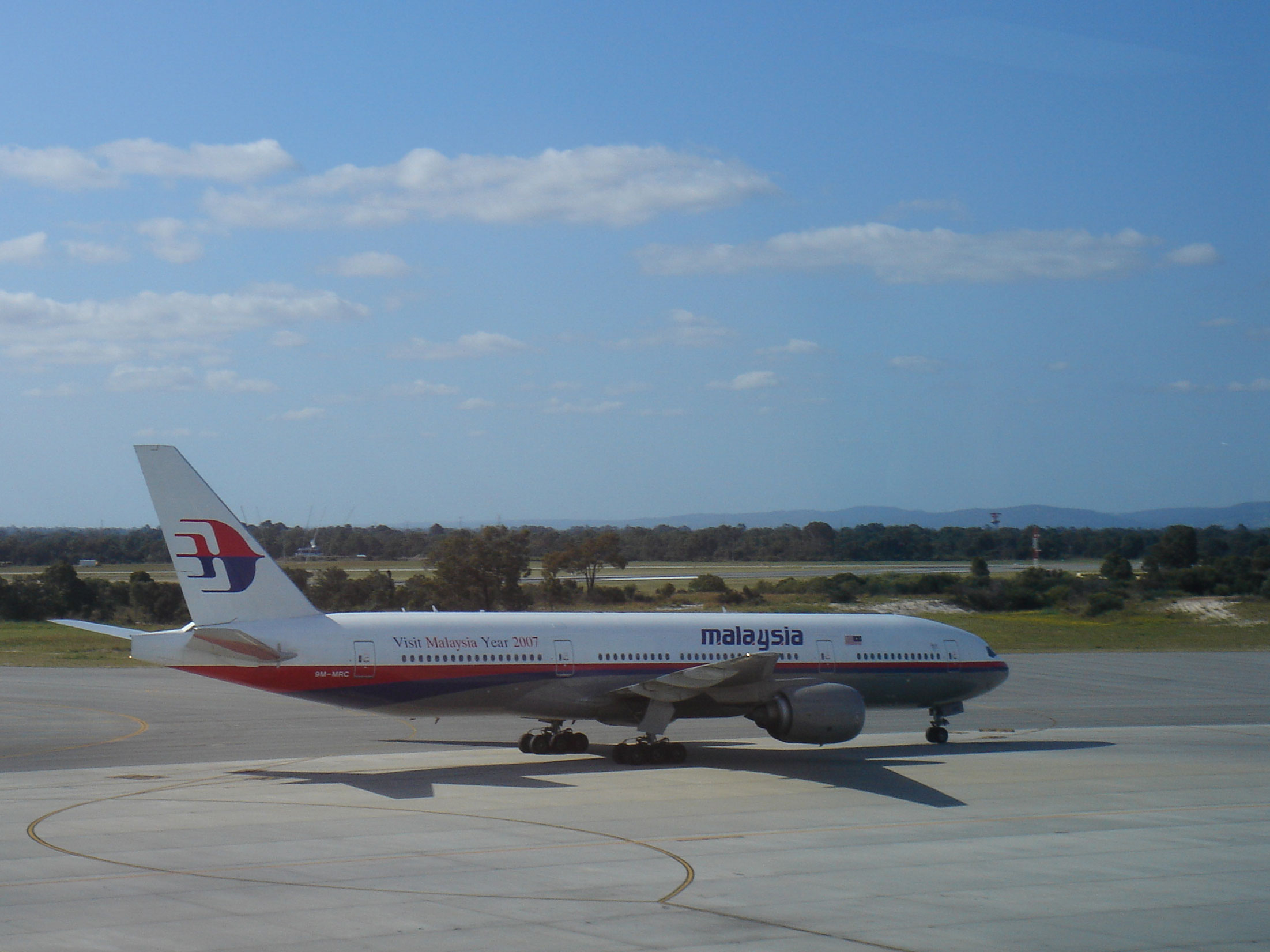 Malaysia Airlines Boeing 777-200ER (9M-MRC) at Perth International Airport, Perth.